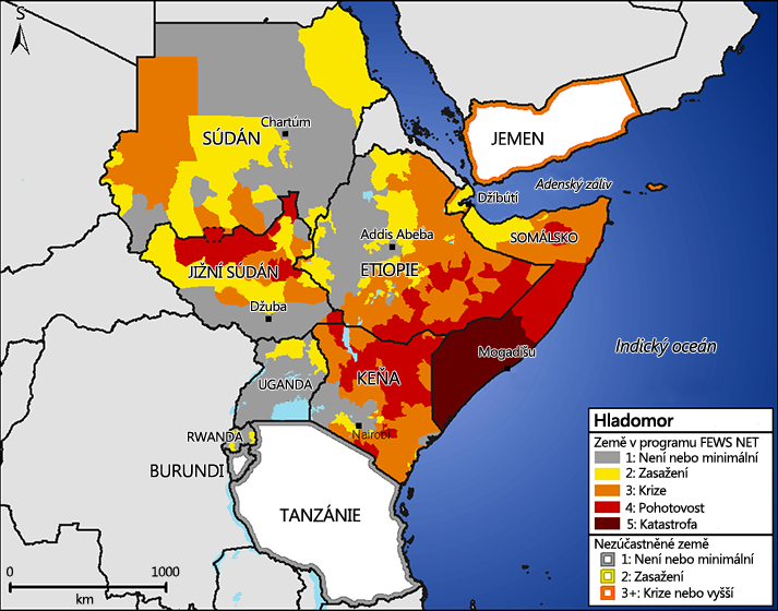 The FEWS projection of the 2011 Horn of Africa famine for July-September, using the IPC scale.